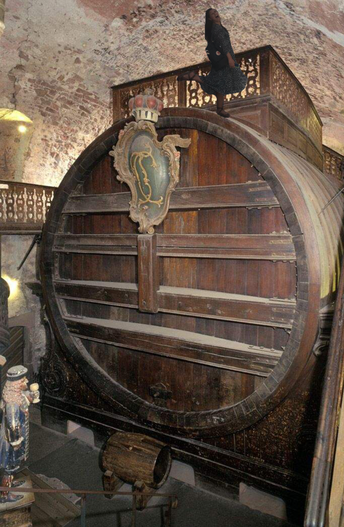 The Heidelberg Tun is big enough to organize dance parties